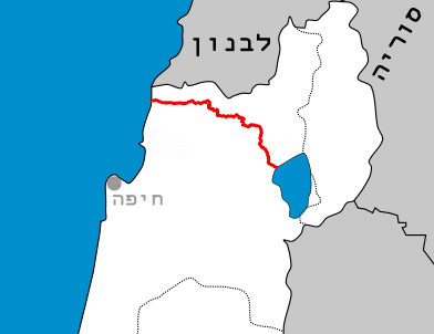 Israel_map-sea_to_sea